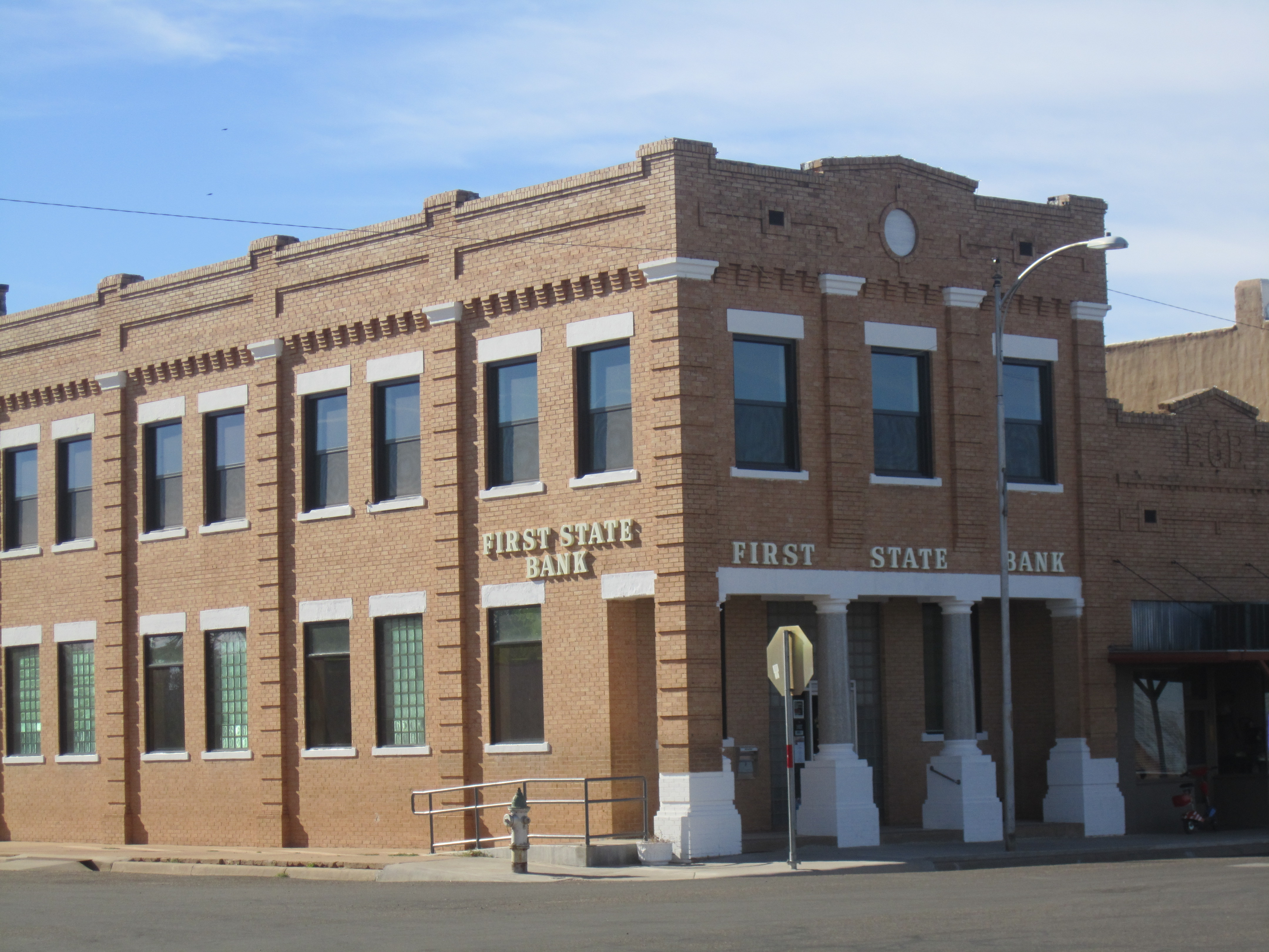 I took photo with Canon camera in Matador, TX.